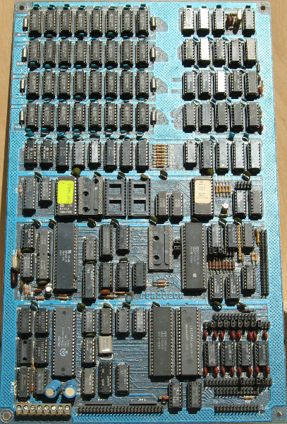 The component side of a Ferguson Big Board computer printed circuit board. This is the main board of a single board computer system based on the Z-80 intended primarily to run the CP/M operating system. It was designed by Jim Ferguson in 1980. The image shows an assembled board.